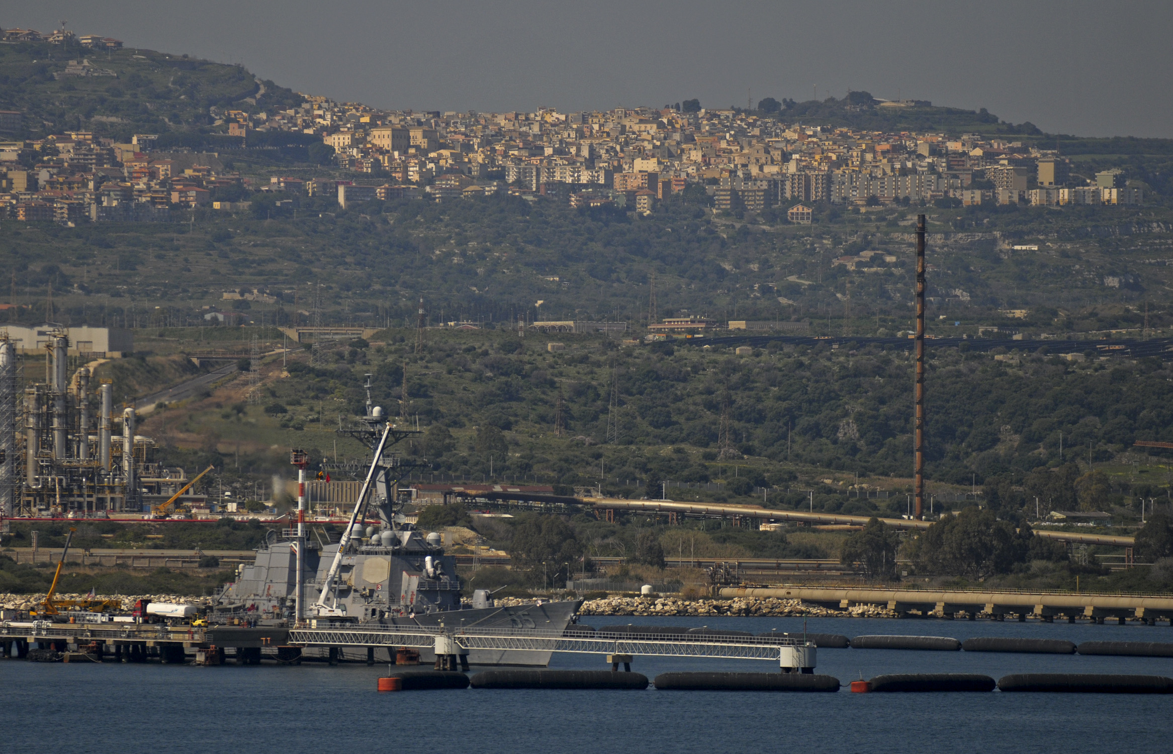 AUGUSTA BAY, Italy (March 24, 2011) The Arleigh-Burke class guided-missile destroyer USS Stout (DDG 55) is pierside in Augusta Bay loading supplies in support of Joint Task Force Odyssey Dawn. Joint Task Force Odyssey Dawn is the U.S. Africa Command task force established to provide operational and tactical command and control of U.S. military forces supporting the international response to the unrest in Libya and enforcement of United Nations Security Council Resolution 1973. (U.S. Navy photo by Mass Communication Specialist 2nd Class Daniel Viramontes/Released)